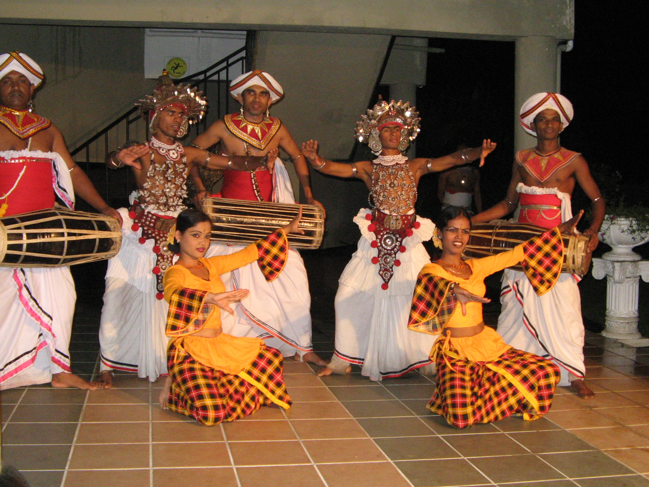 Pathi Dance Troupe, Kandy. Drummers and performers in Ves Dance costume (men) and Harvest Dance costume (women) strike a pose during curtain call.